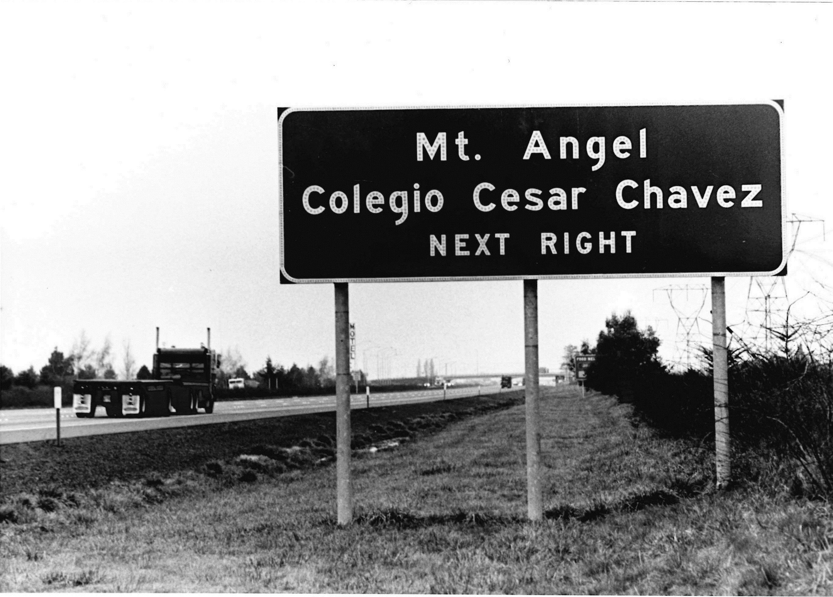 Road sign advertising Colegio Cesar Chavez in Mount Angel, Oregon.